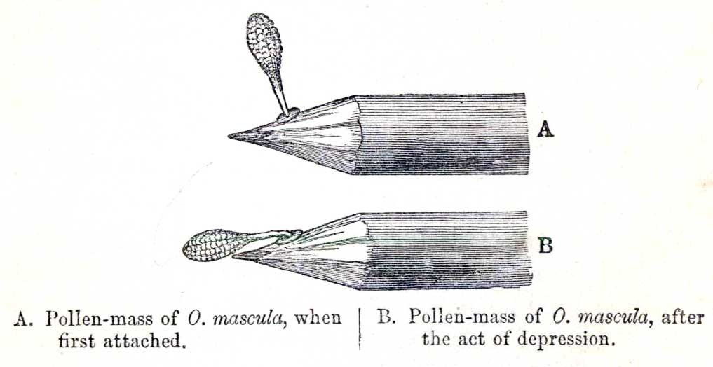 Figure 2 from the 1877 edition of Charles Darwin's Fertilisation of Orchids. Scanned from a copy of the work at the University of Massachusetts Amherst.